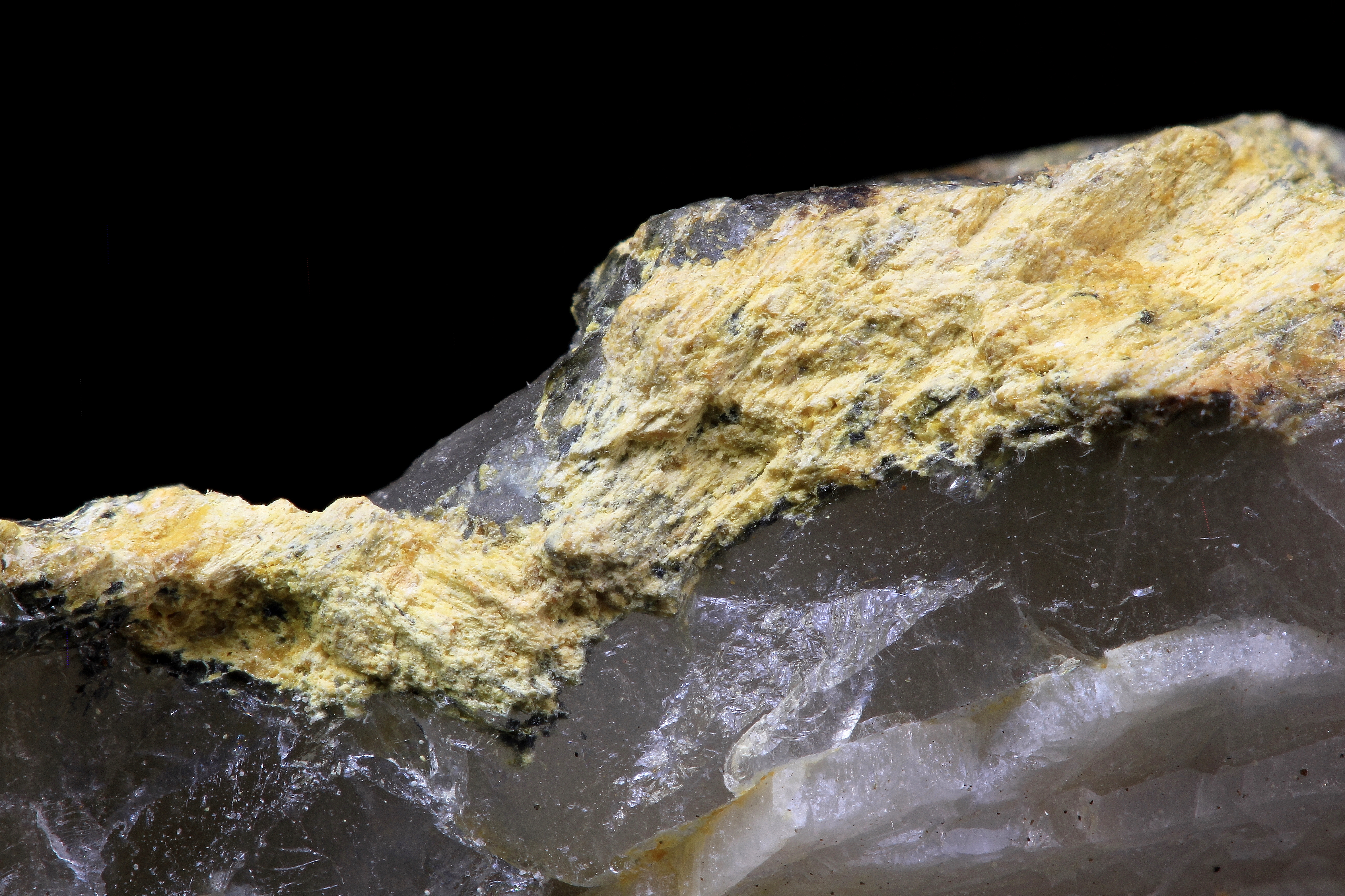 Oxyplumboroméite Size: 50 mm x 25 mm x 25 mm Locality: Viitaniemi pegmatite, Eräjärvi area, Orivesi, Western and Inner Finland Region, Finland Yellow, fibrous oxyplumboroméite in quartz. This is newly (2017) identified material and some older visually identified stibiconites from Viitaniemi might also be the same mineral.